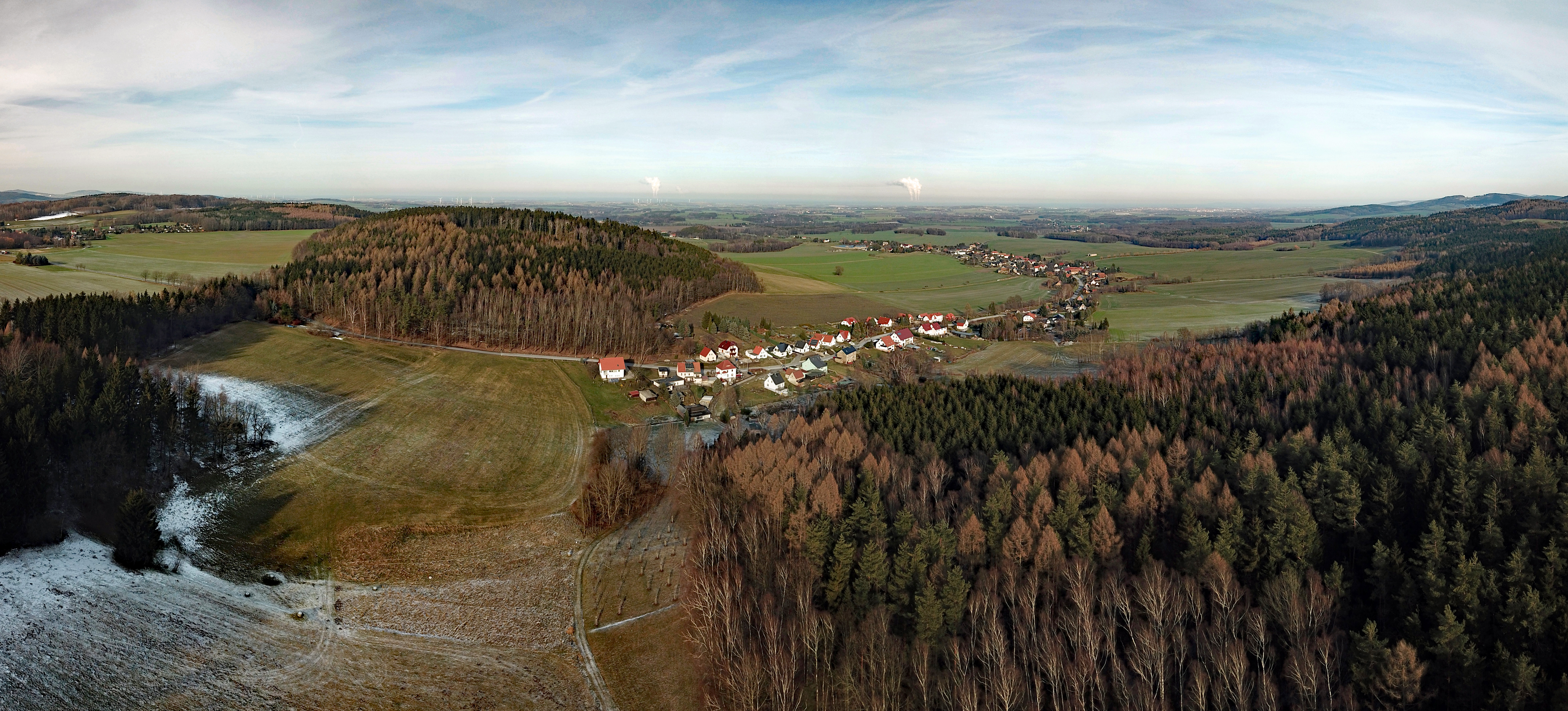 Naundorf (Doberschau-Gaußig, Saxony, Germany) Hornjoserbsce: Powětrowy wobraz Noweje Wsy pola Huski